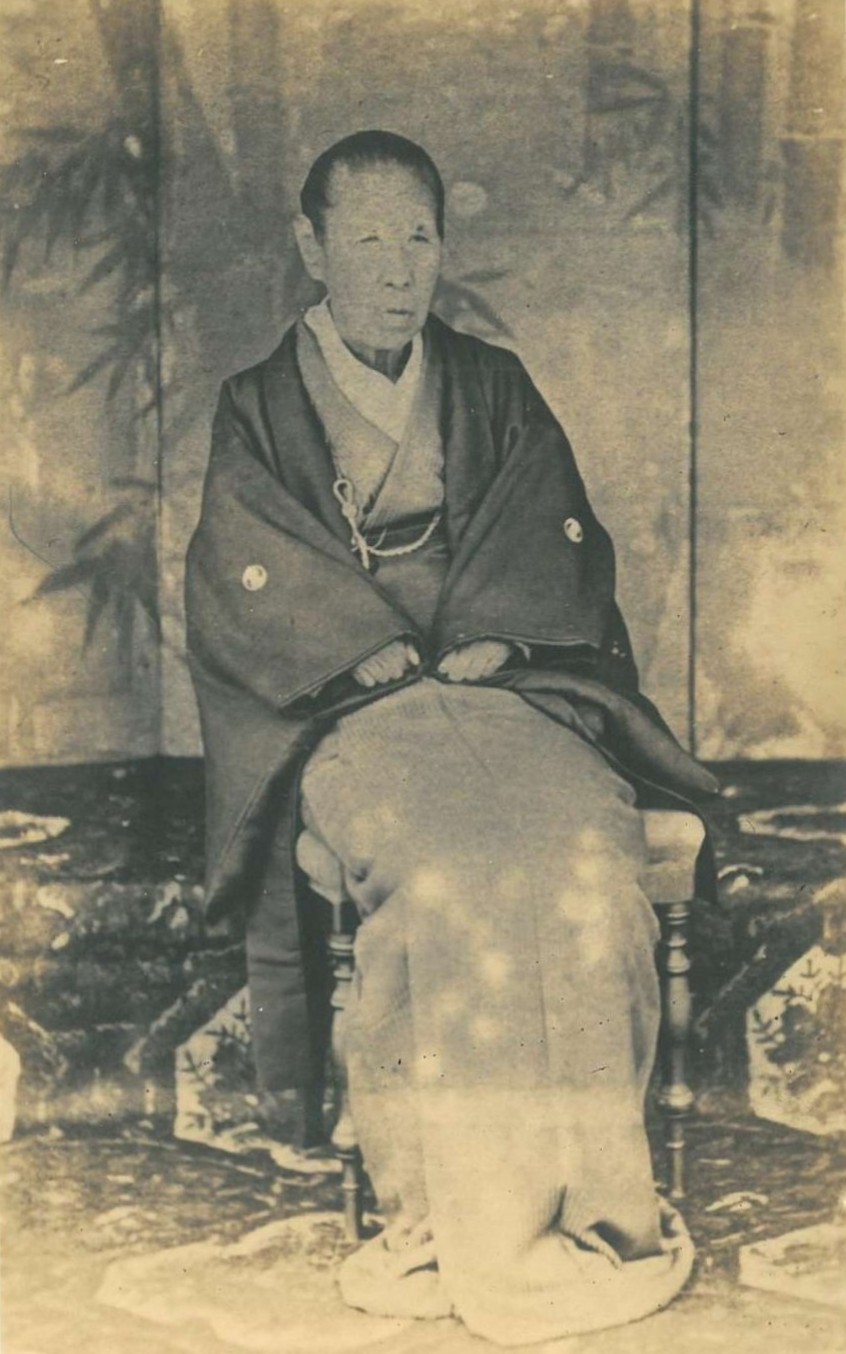 The photograph of Ryouhime.